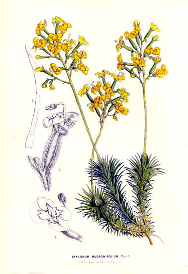 Botanical print of Stylidium dichotomum (pins-and-needles triggerplant) from Flore des serres et des jardins de l’Europe (1850, volume 6, plate 606) by Charles Lemaire. The print notes that this image is Stylidium mucronifolium. S. mucronifolium Sond. was reduced to synonymy of S. leptophyllum var. mucronifolium E.Pritzel. Mildbraed (1908) reduced both S. mucronifolium Hook. and S. leptophyllum var. mucronifolium E.Pritzel to synonymy with S. dichotomum DC., hence the identification of this image as Stylidium dichotomum.